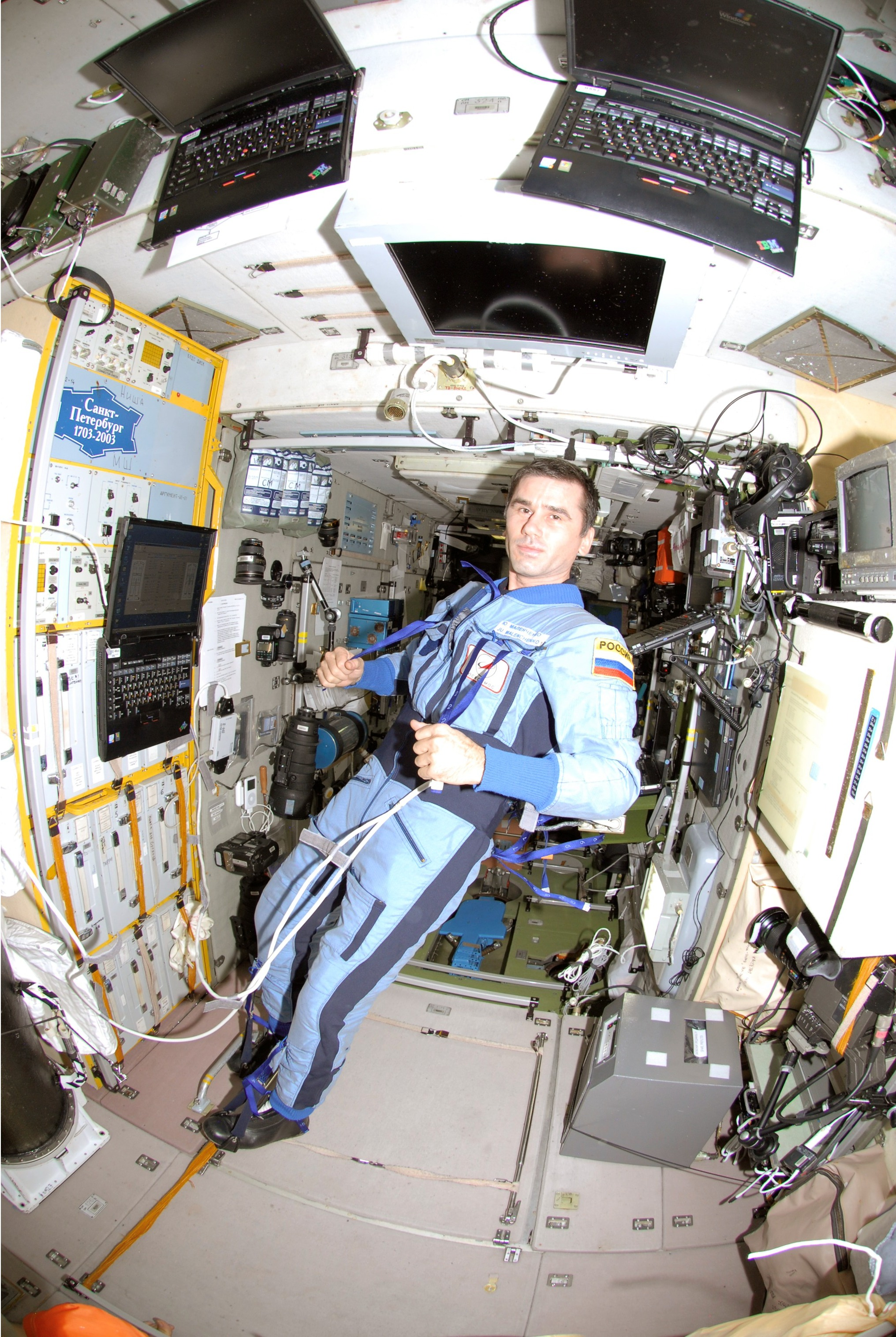 Cosmonaut Yuri I. Malenchenko, Expedition 16 flight engineer representing Russia's Federal Space Agency, pauses for a photo while working in the Zvezda Service Module of the International Space Station.